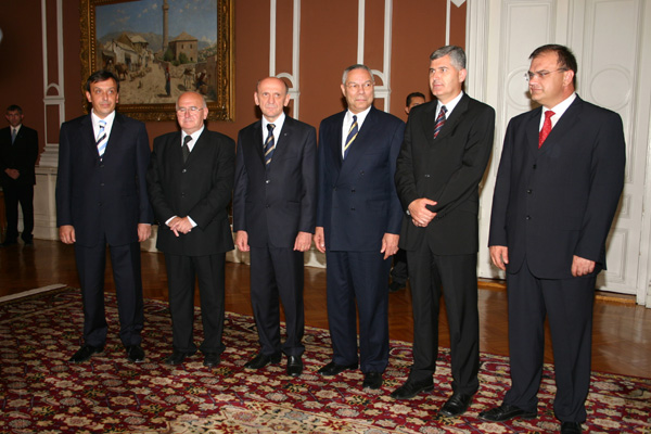 Secretary of State Powell met with officials of Bosnia and Herzegovina on his visit to that country as part of his trip to Europe and the Middle East. Pictured with Secretary Powell are Chairman of the Bosnia and Herzegovina (BiH) Council of Ministers Adnan Terzić, Member of the BiH Presidency Borislav Paravac, Chairman of the BiH Presidency Sulejman Tihić, Member of the BiH Presidency Dragan Čović, and BiH Foreign Minister Mladen Ivanić.